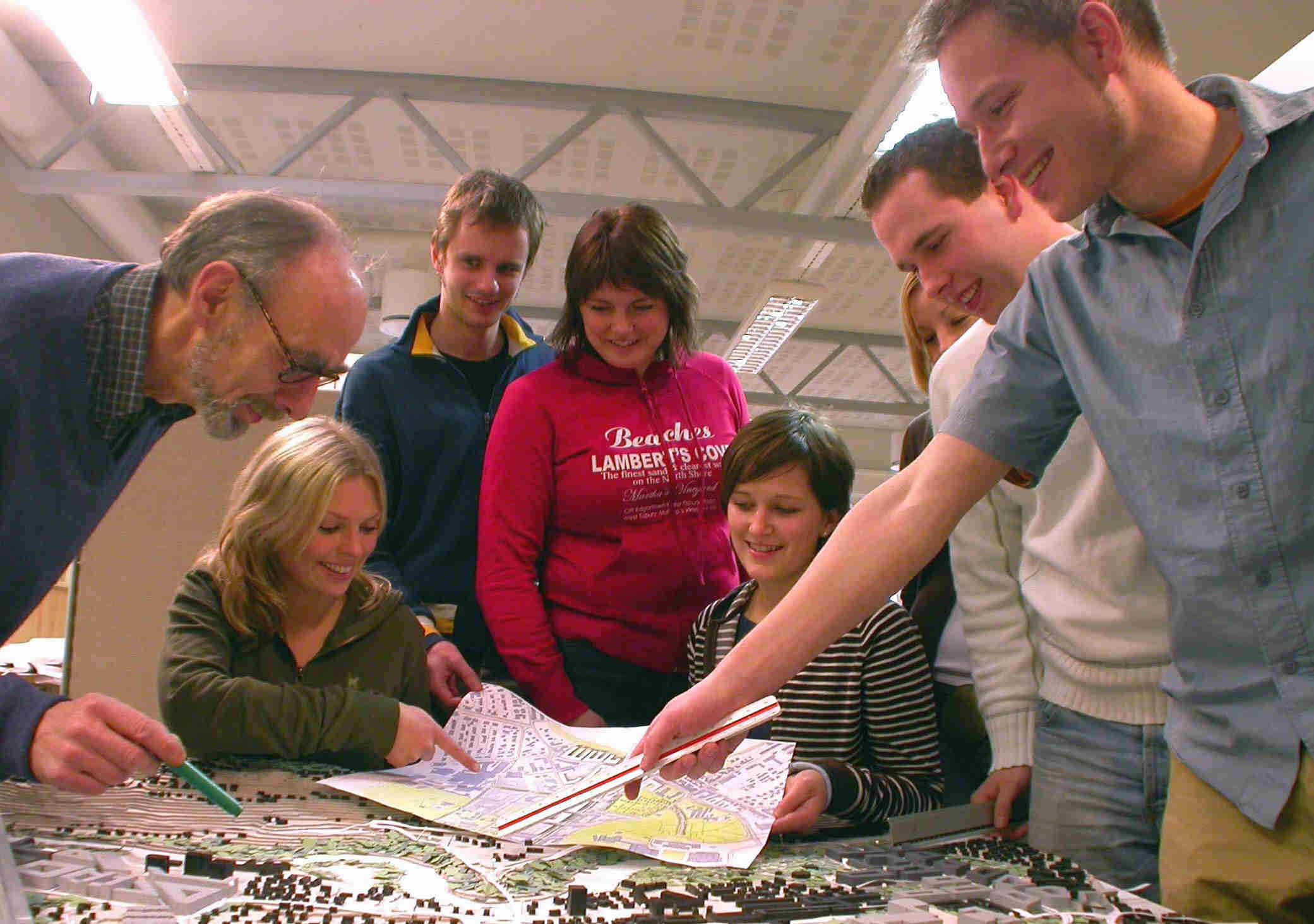 Professor Helge Fiskaa and students at NTNU Trondheim. Class of urban planning